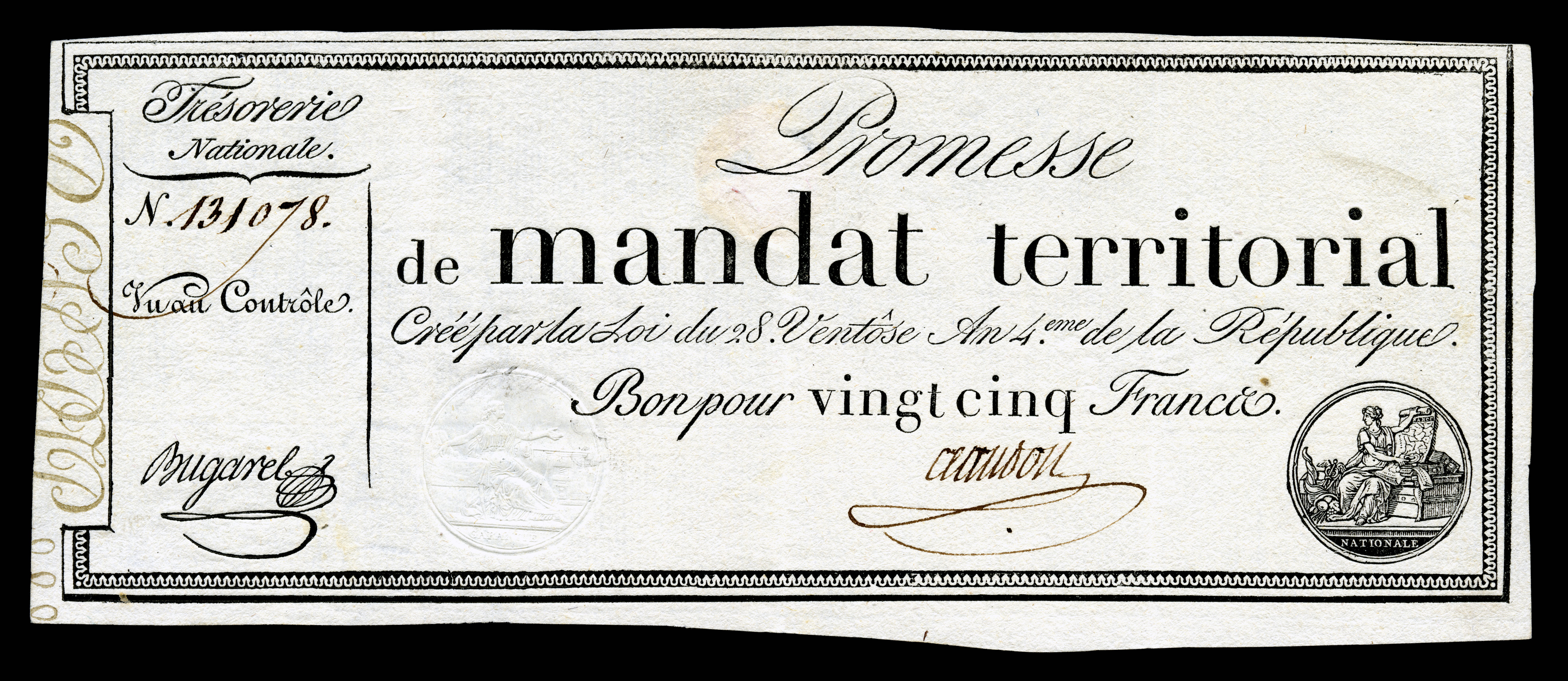 Early French paper currency part of an issue known as Promesses de Mandats Territoriaux (fiat money designed to replace the assignat) - 25 Francs, 1796 Issue (Pick ref# A83a).